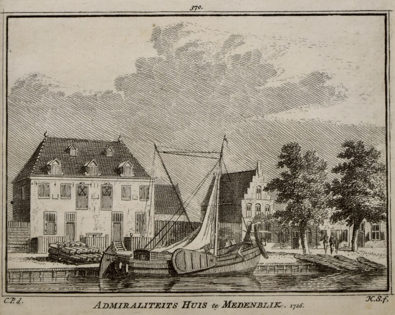 Building of the Admirality in Medemblik